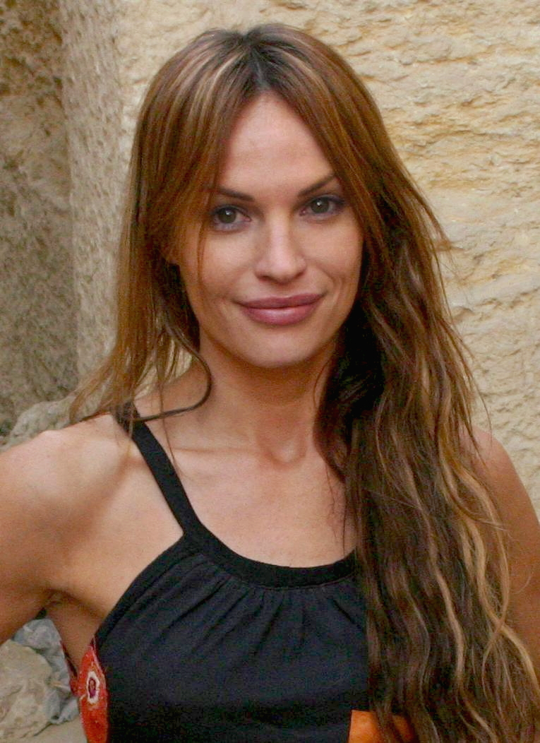 Jolene Blalock in Cairo